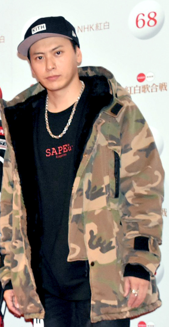 Image of the members of the Japanese music group known as Sandaime J Soul Brothers, used to serve as the primary means of visual identification at the top of the article dedicated to the work in question